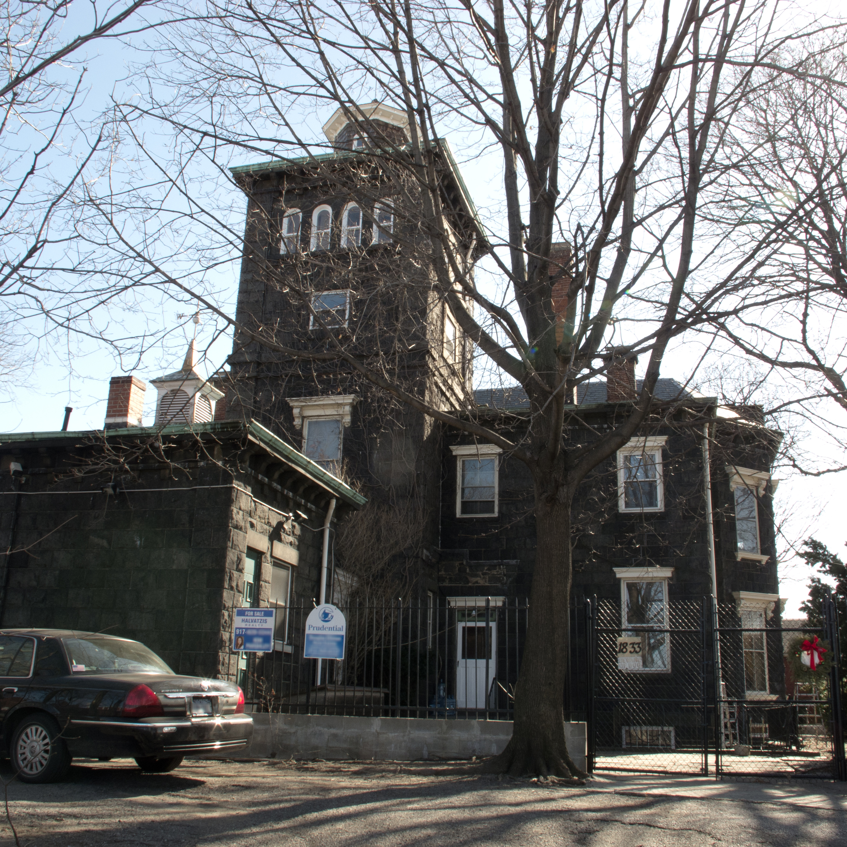 Steinway Mansion from 41st Street.